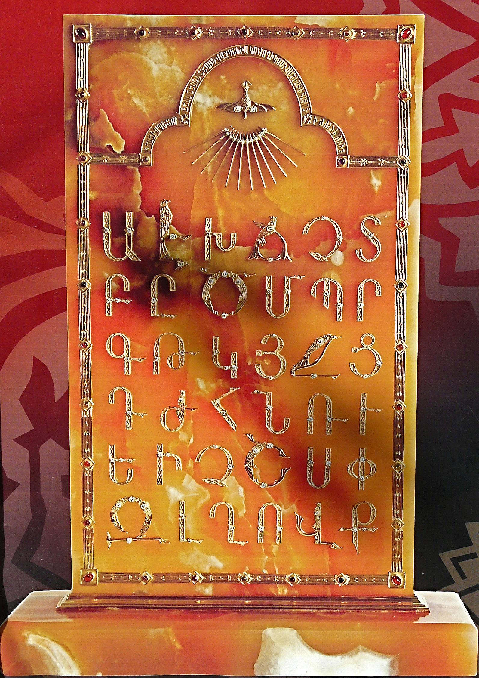 Golden Armenian Alphabet